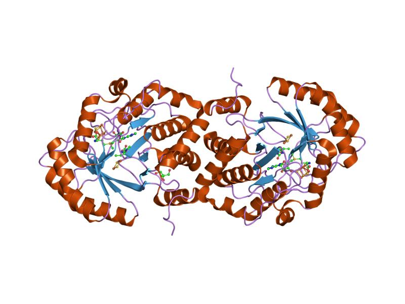 Cartoon representation of the molecular structure of protein registered with 1r30 code.